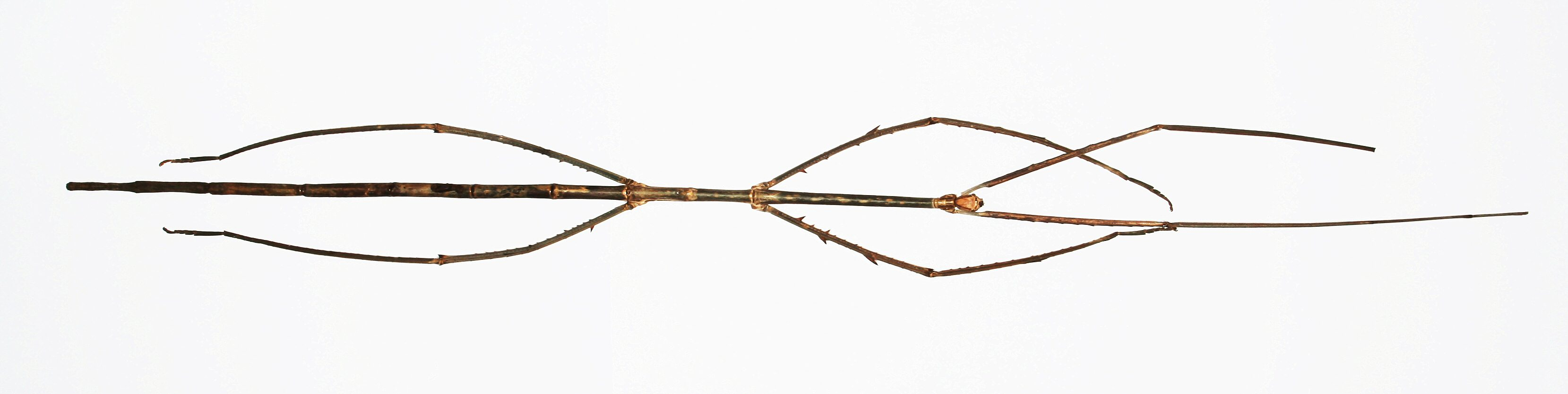 Dorsal view of the stick insect Phobaeticus chani Bragg, 2008. The photograph is of the holotype female.